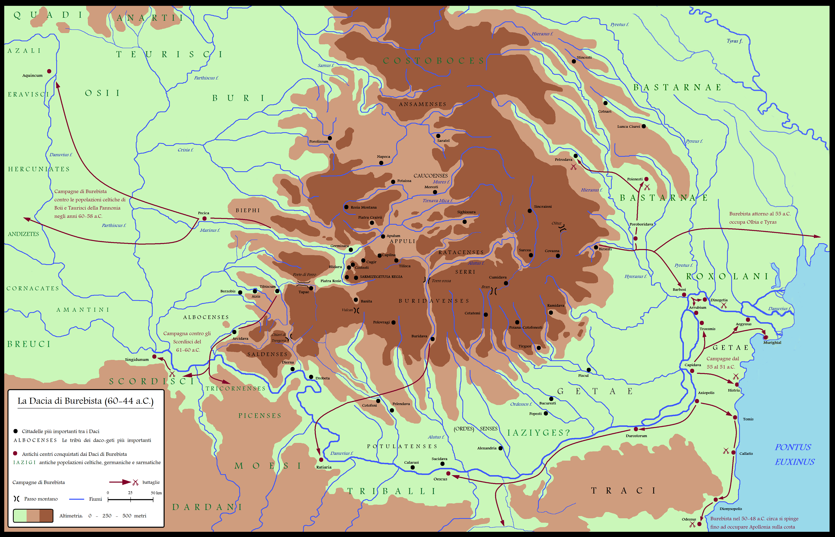 Dacian Kingdom around 60-44 BC during the time of Burebista (r. 82-44 BC), including the Dacian king's military campaigns